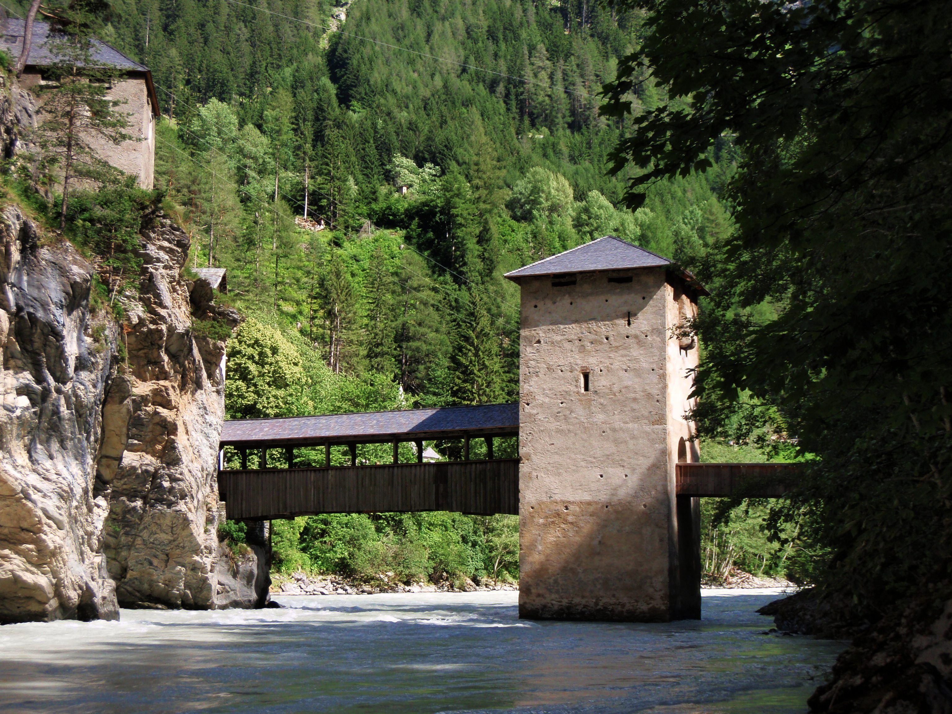 The Finstermünz bridge over the Inn, seen from the left riverbank